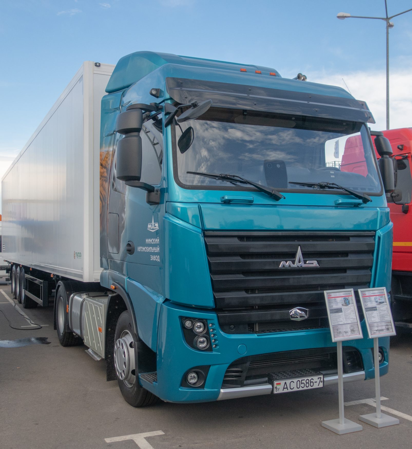 MAZ-5440M9 fifth-wheel truck with MAZ-930011 semitrailer. Photo taken at Belagro-2019 exhibition (Minsk district, Belarus)